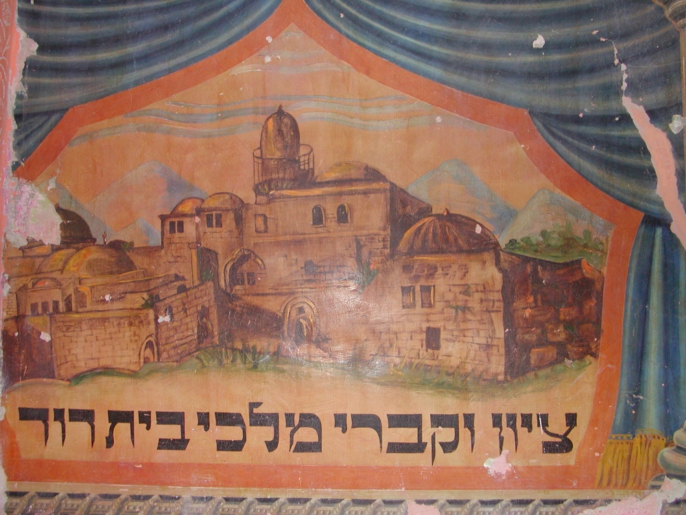 Cukerman Synagogue in Będzin